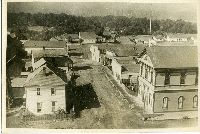 "Looking south down H Street--Blue Lake--to the Blue Lake Hotel built by Clement Clartin(?)" ; "House built July 15-1893, Crawford house moved Oct. 2-1897"